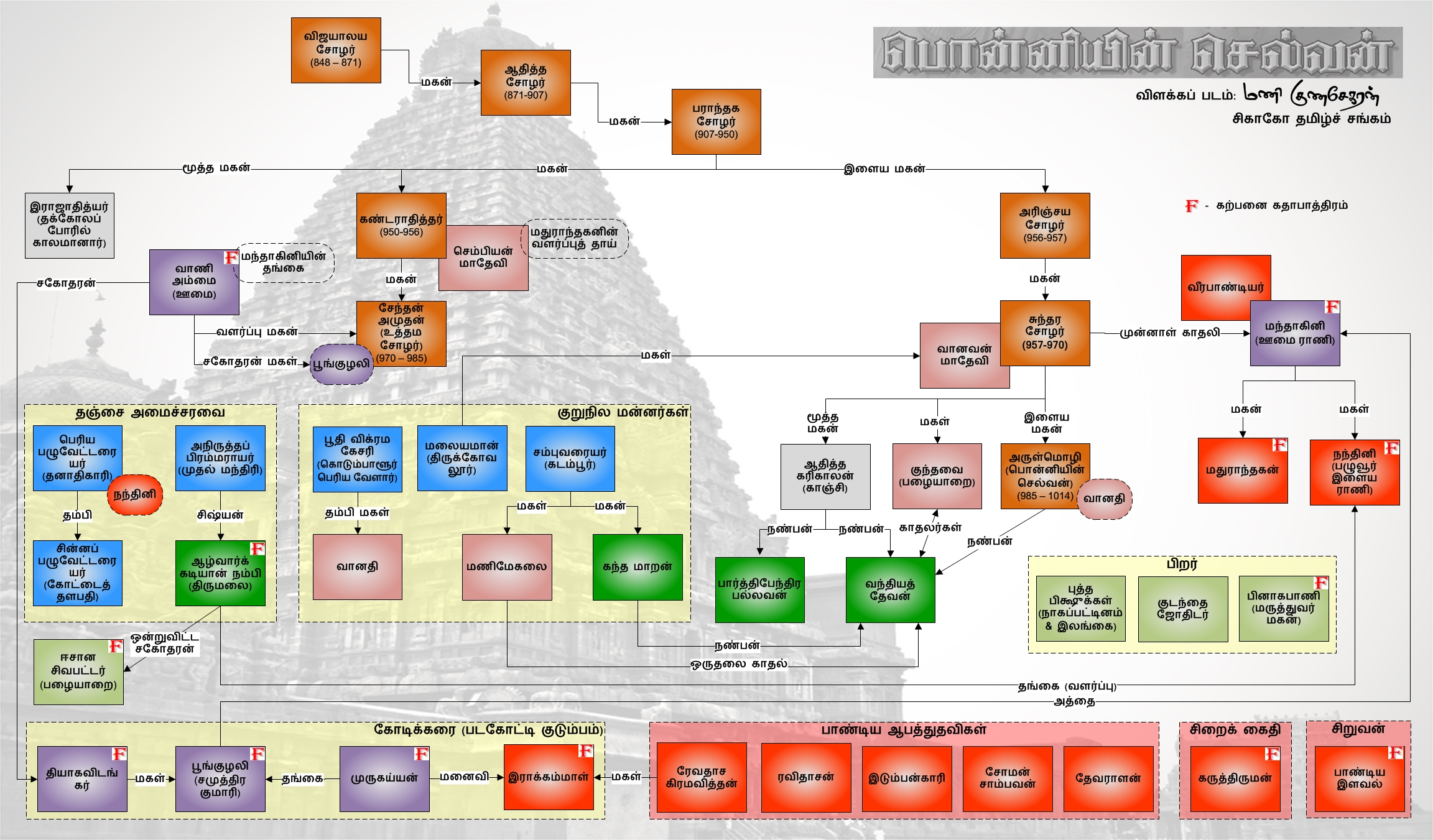 A visual representation of the family of characters involved in the Ponniyin Selvan collection of novels.